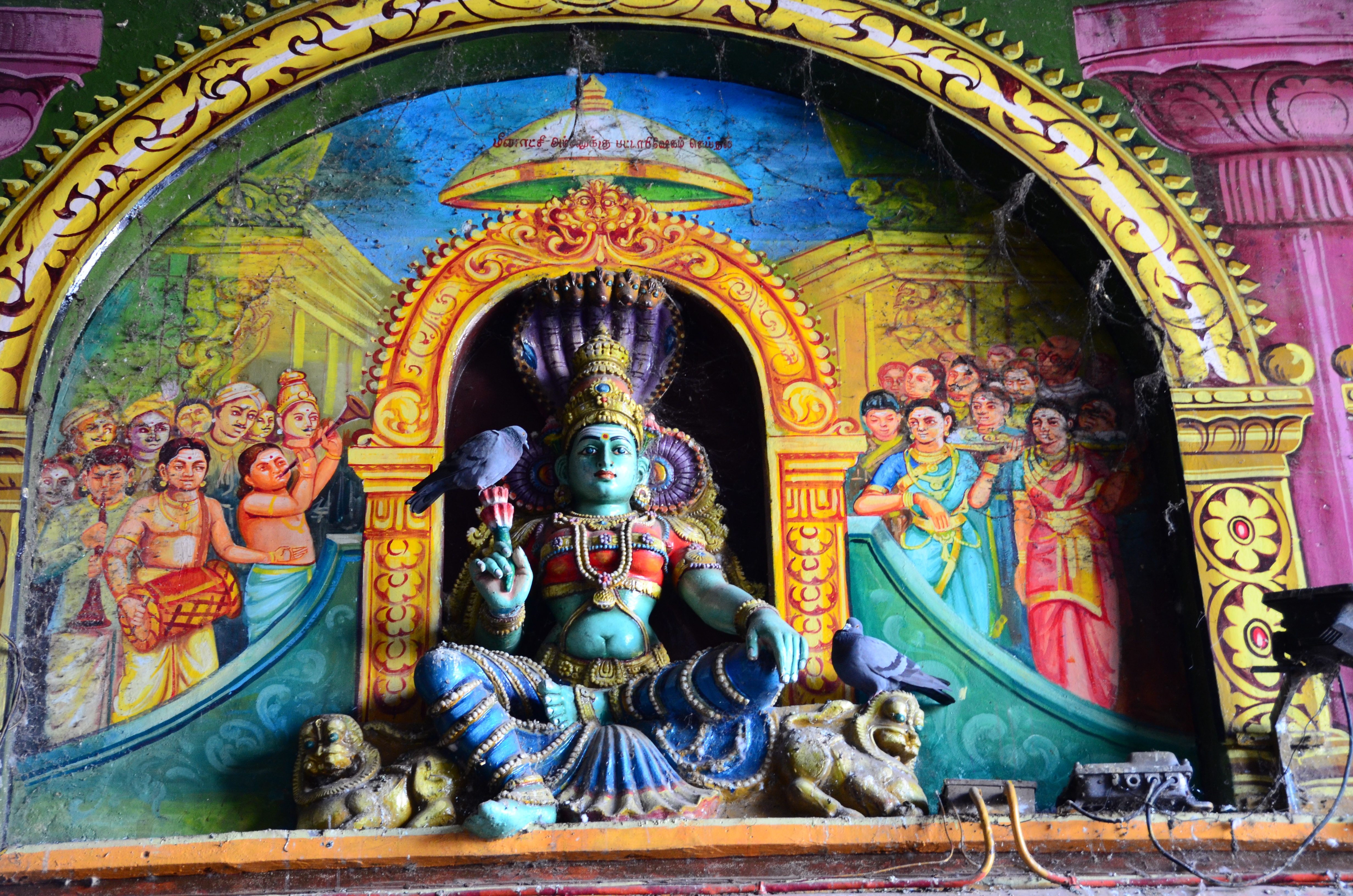 Tiruvacimandapa